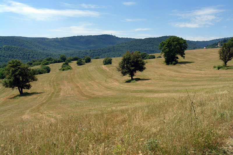 Algeti valley